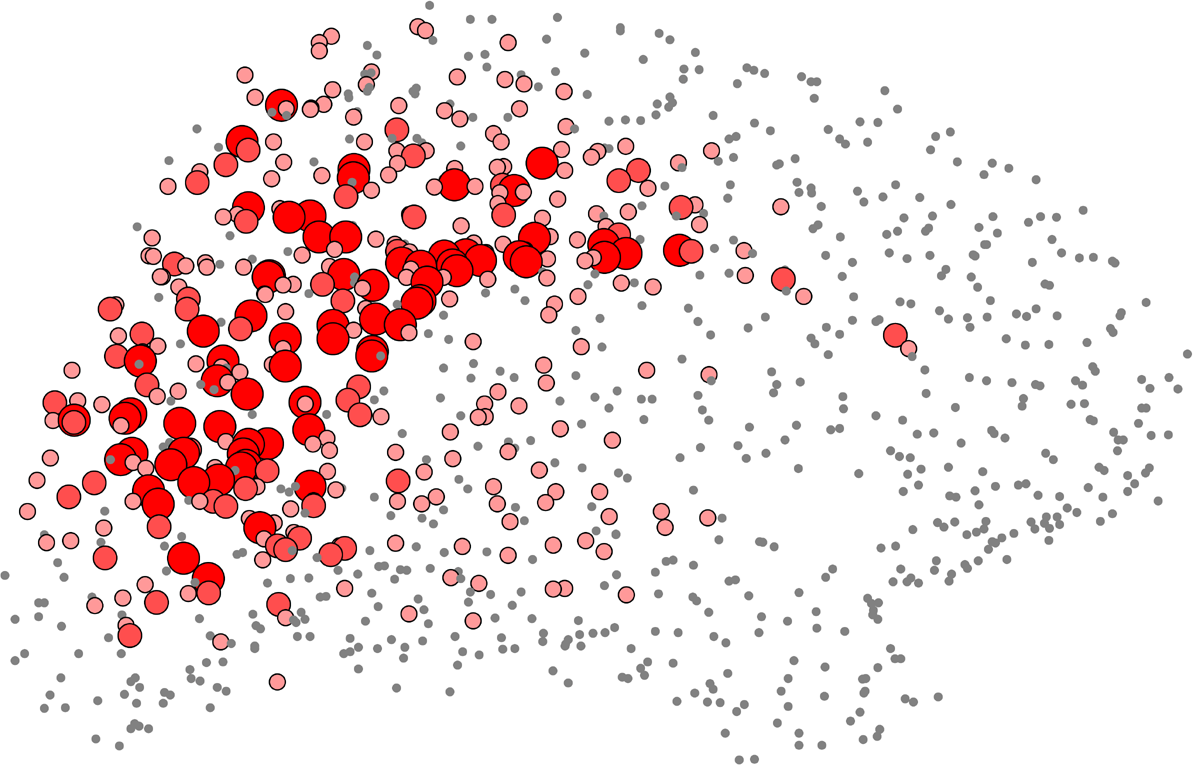 Structural and functional brain imaging analyses, combined with computational analyses, reveal highly connected, centrally located regions of the human cortex that form a “structural core” of the brain.